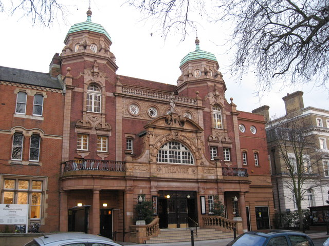 Richmond Theatre Richmond Theatre was built in 1899 as the Theatre Royal and Opera House and refurbished in 1991.